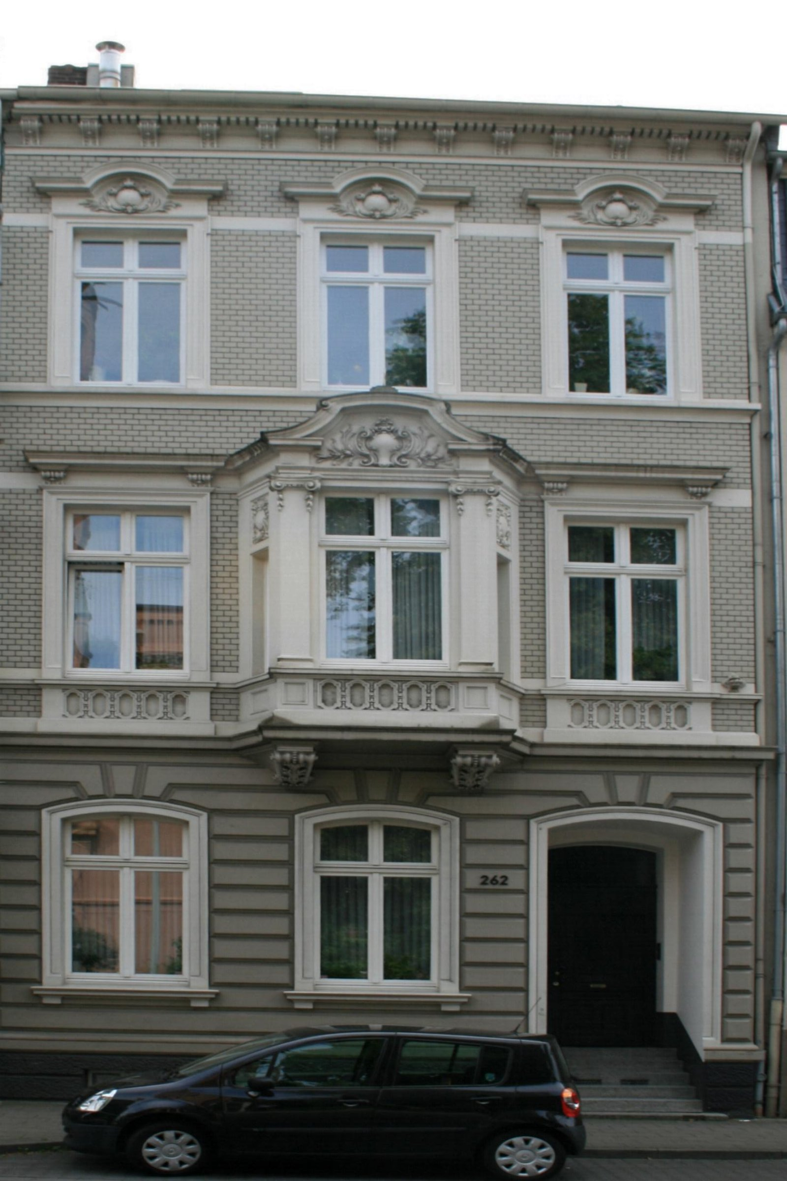 Cultural heritage monument No. H 013 in Mönchengladbach